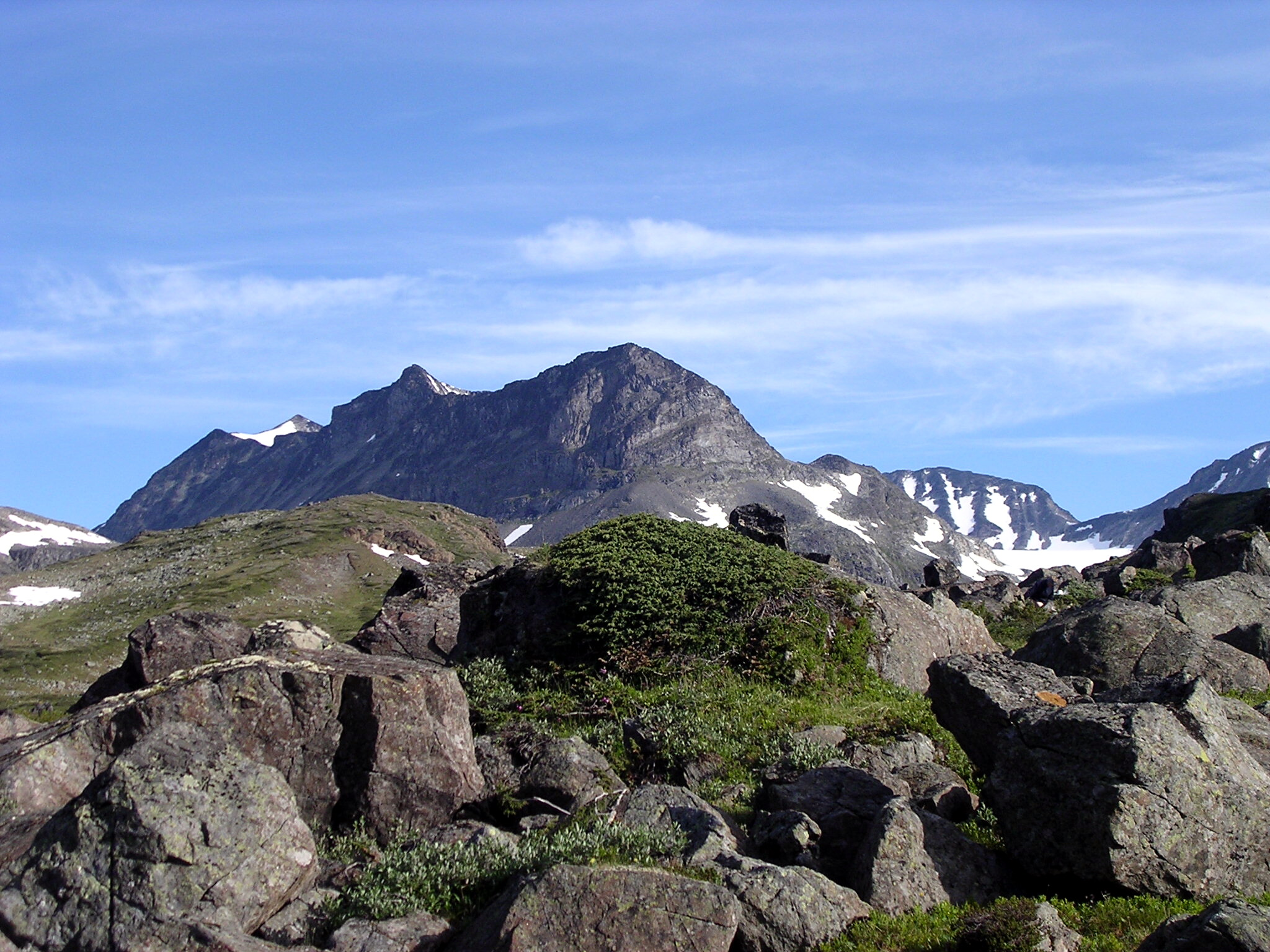 The peaks Memurutindane seen from the valley Memurudalen in south. Jotunheimen, Norway.